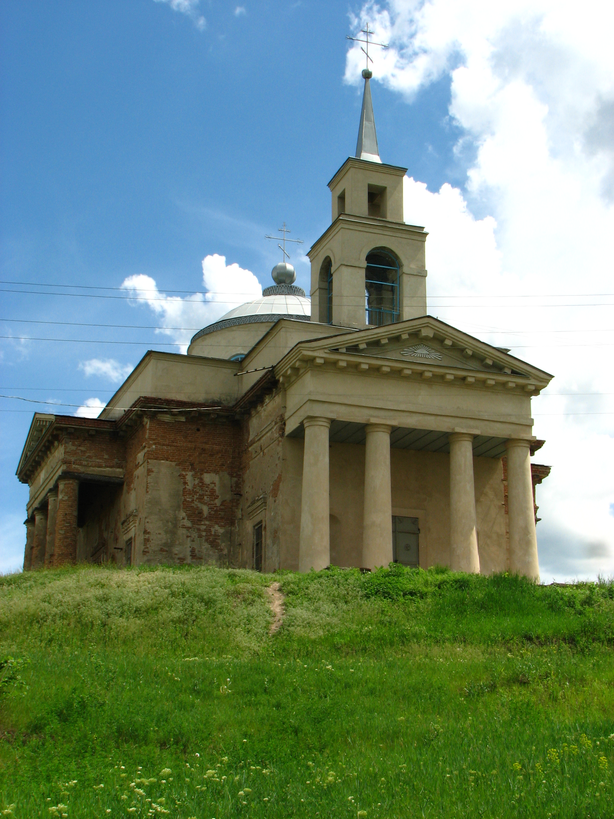 Благовіщинська церква у Веселій Горі.